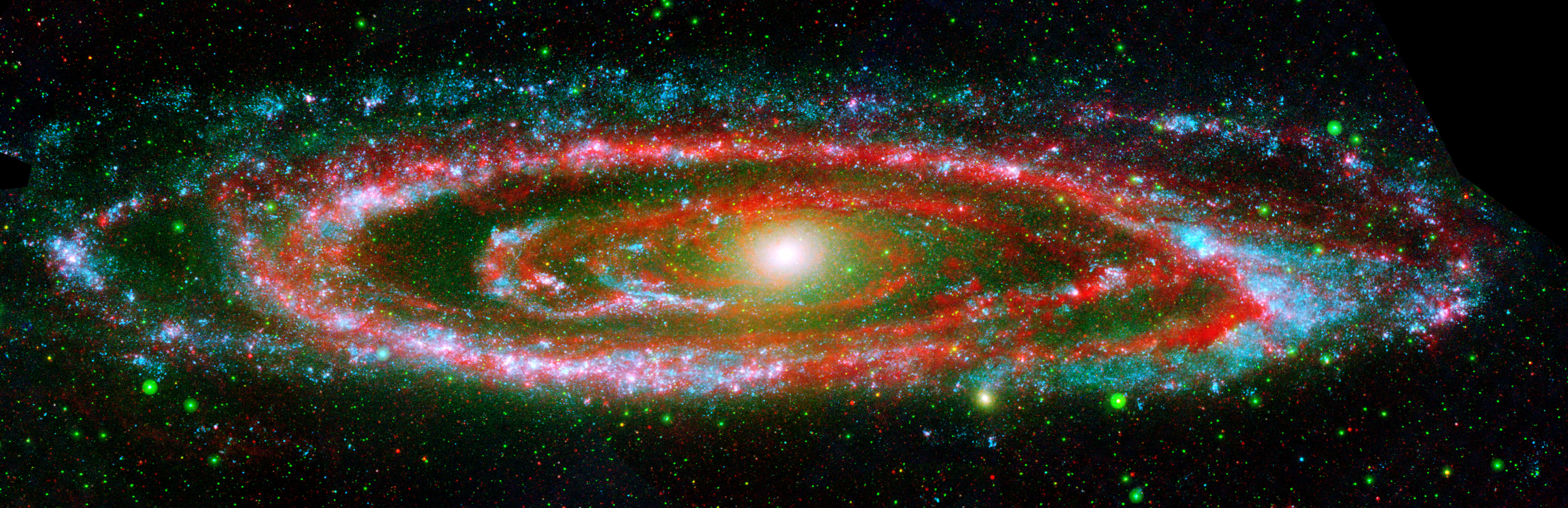 Andromeda Galaxy shot from the GALEX Orbiter, produced by the California Institute of Technology.